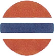 logo for the norwegian organisation Fedrelandslaget